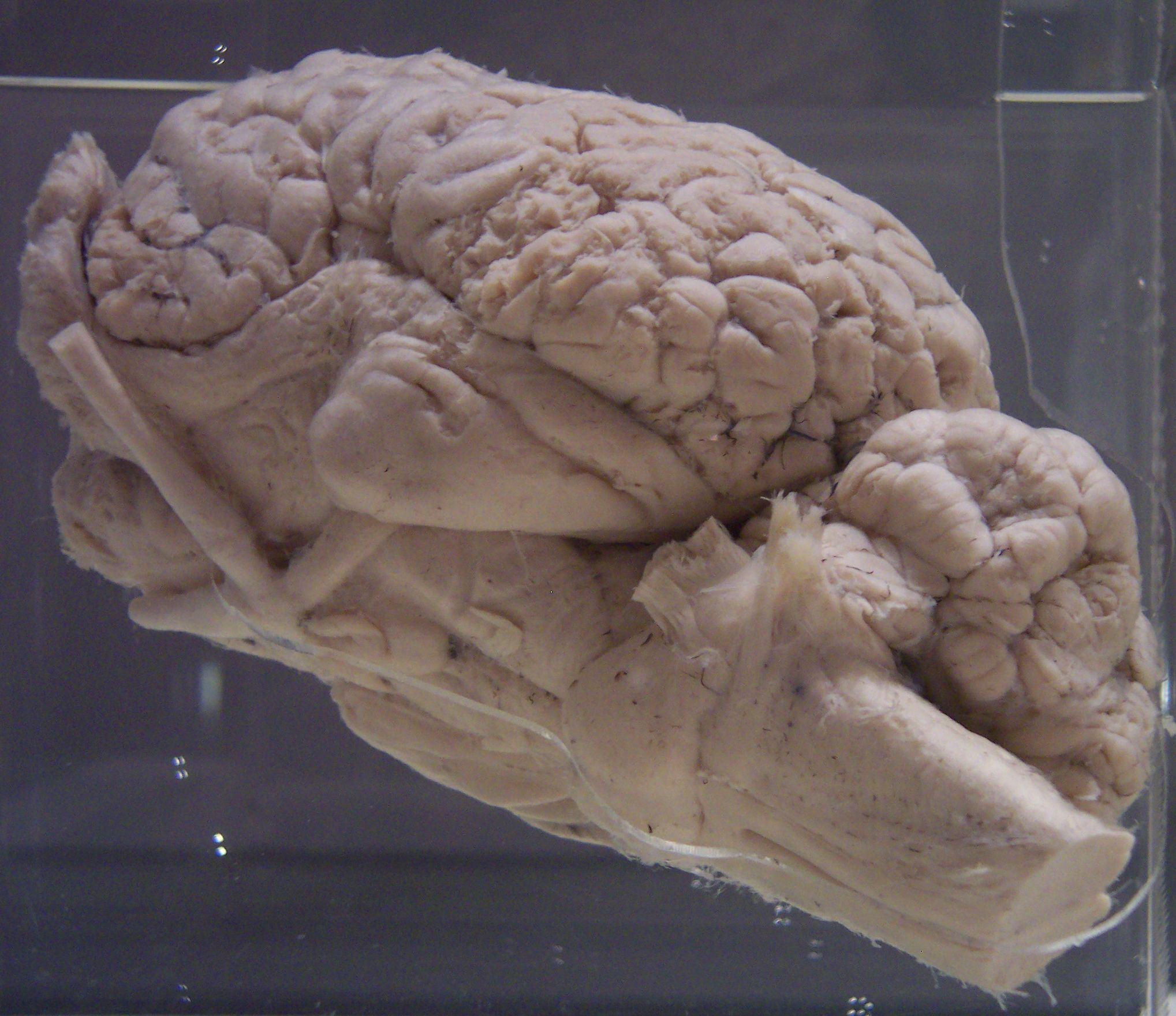 horse brain